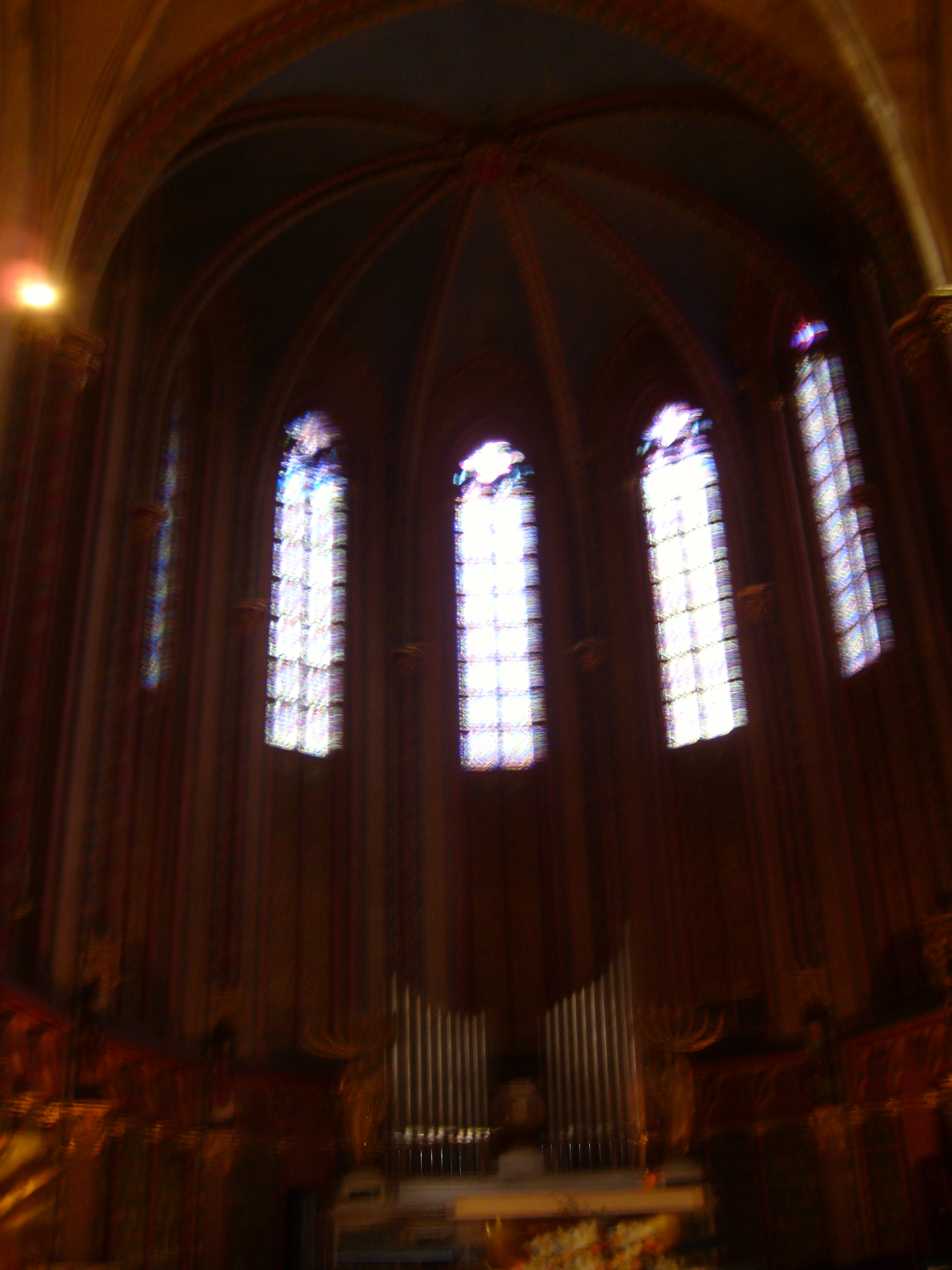 Gothic Choir of Aix Cathedral, Aix-en-Provence, France